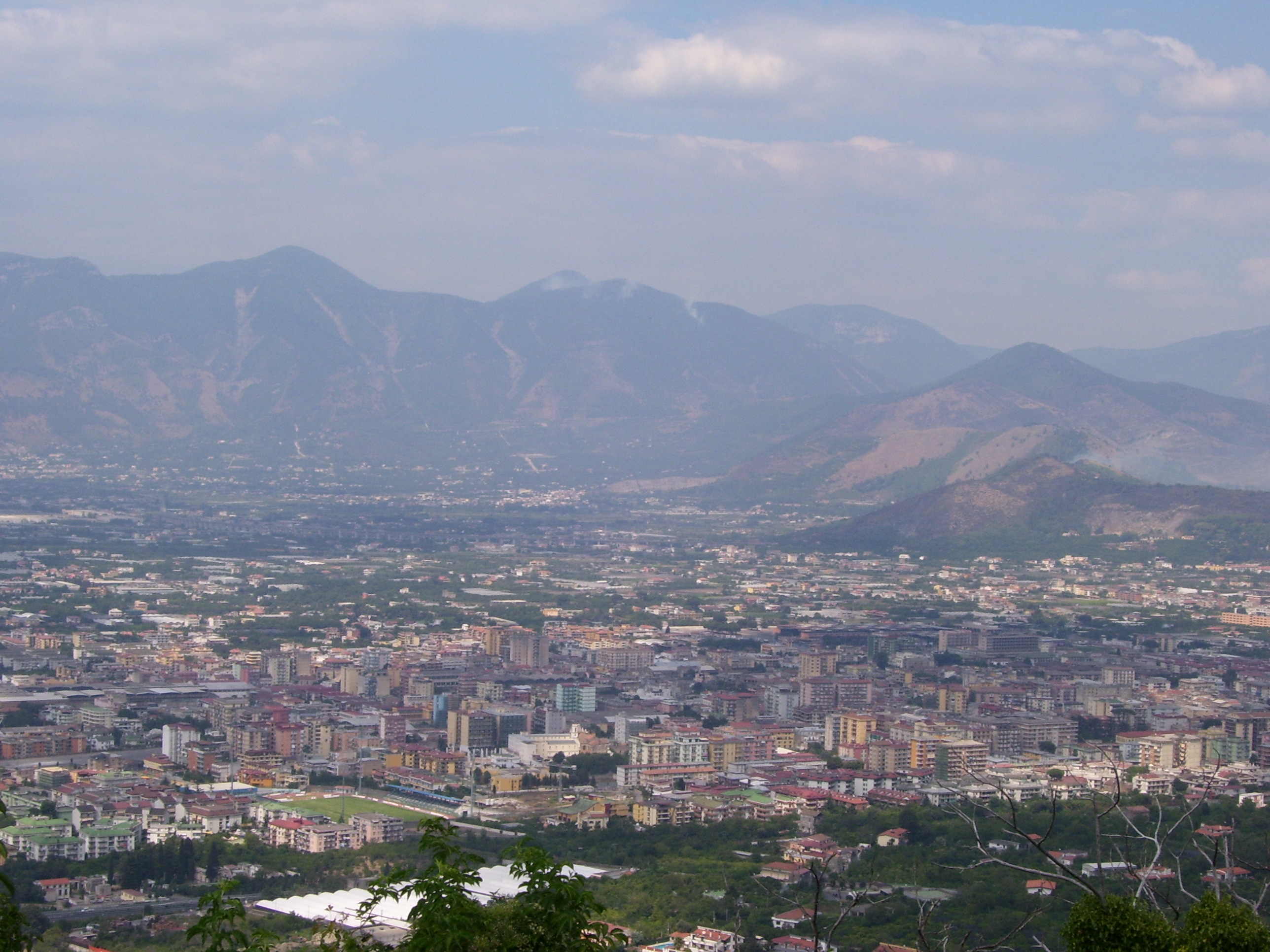 Panorama di Pagani